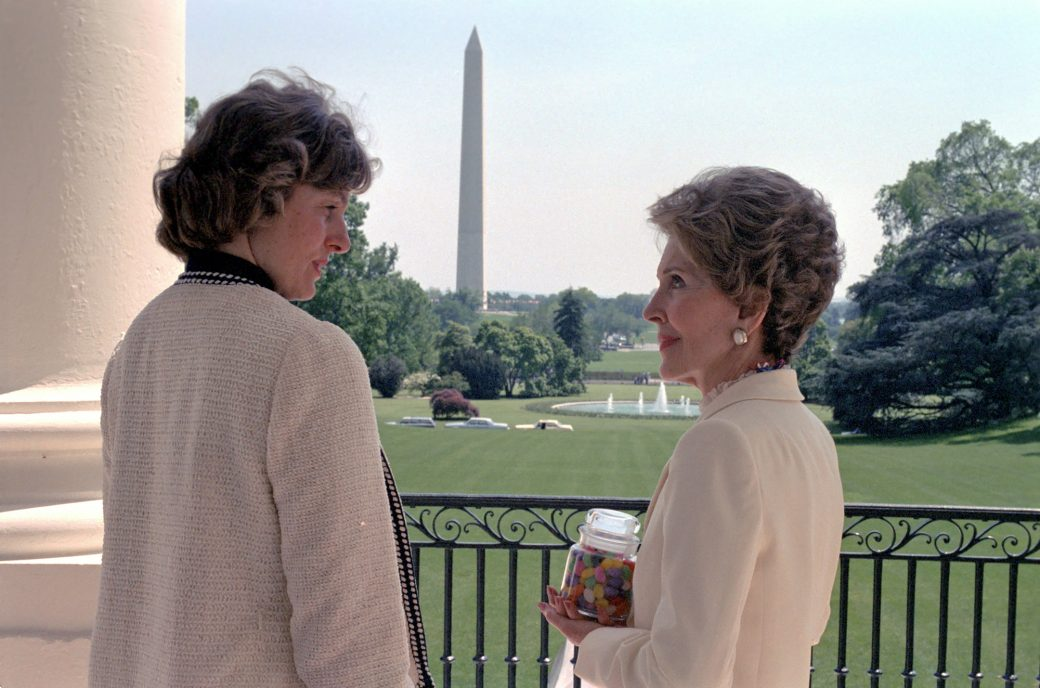 Muffie Brandon Cabot, social secretary in the Reagan administration, 1981 to 1983. Cabot speaks with First Lady Nancy Reagan on the State Floor Balcony. May 13, 1981.